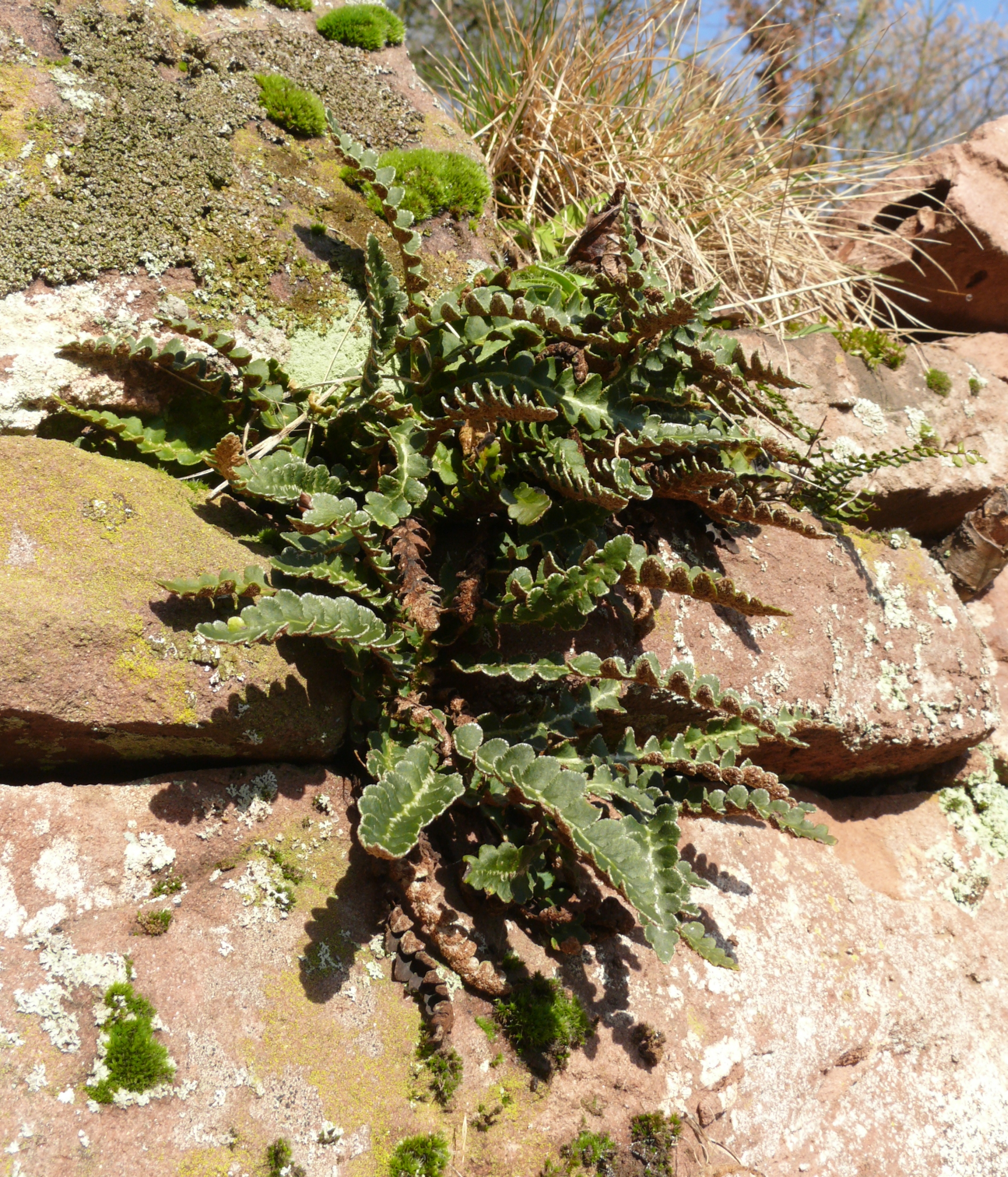 Asplenium ceterach, Spessart, Germany